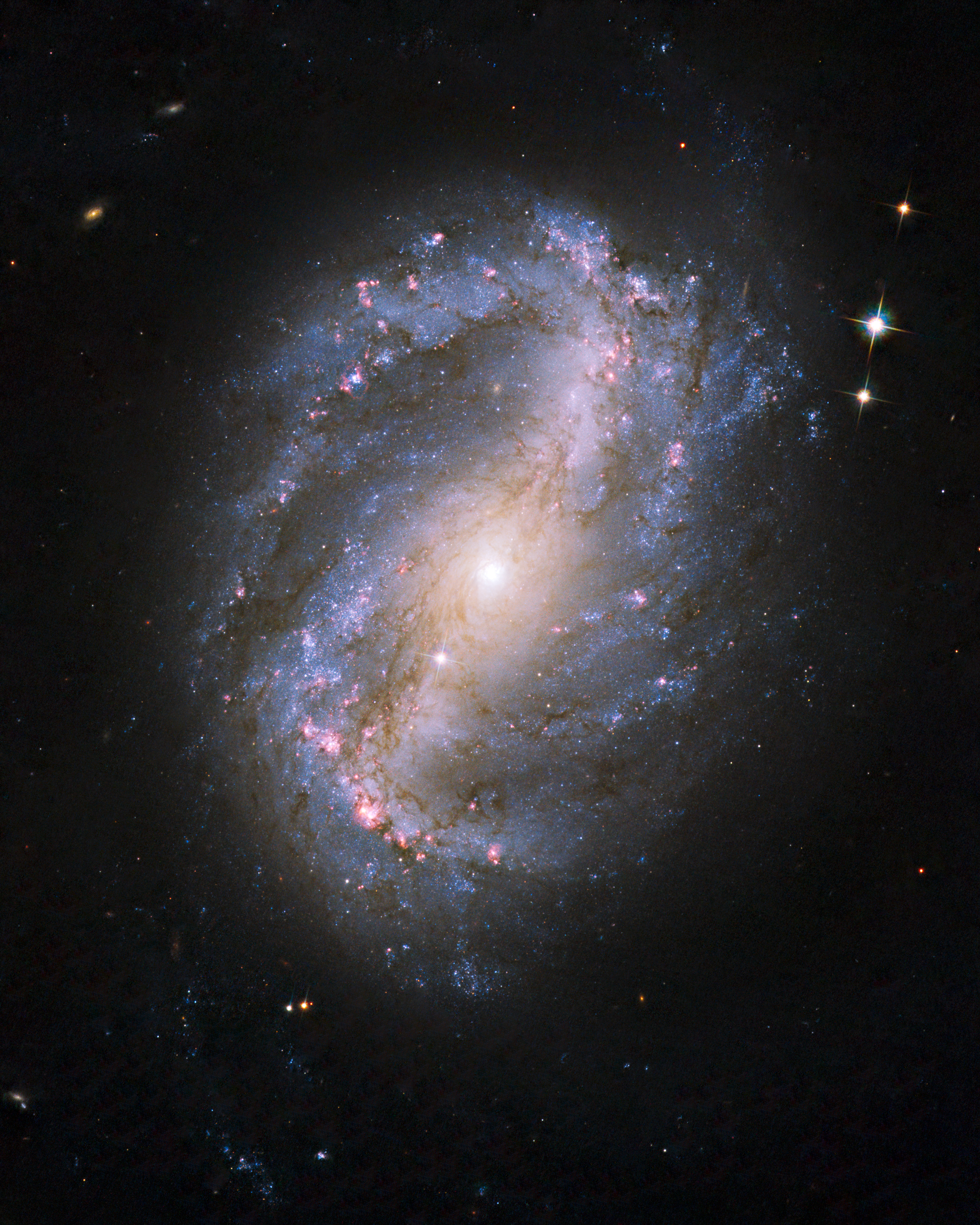 Barred Spiral Galaxy NGC 6217 by Hubble Space Telescope This is the first image of a celestial object taken with the newly repaired Advanced Camera for Surveys (ACS). The camera was restored to operation during the STS-125 servicing mission to upgrade the Hubble Space Telescope. The barred spiral galaxy NGC 6217 was photographed on June 13 and July 8, 2009, as part of the initial testing and calibration of Hubble's ACS. The galaxy lies 6 million light-years away in the north circumpolar constellation Ursa Major.